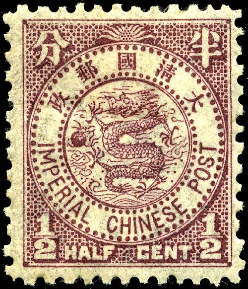 China half-cent stamp of 1897